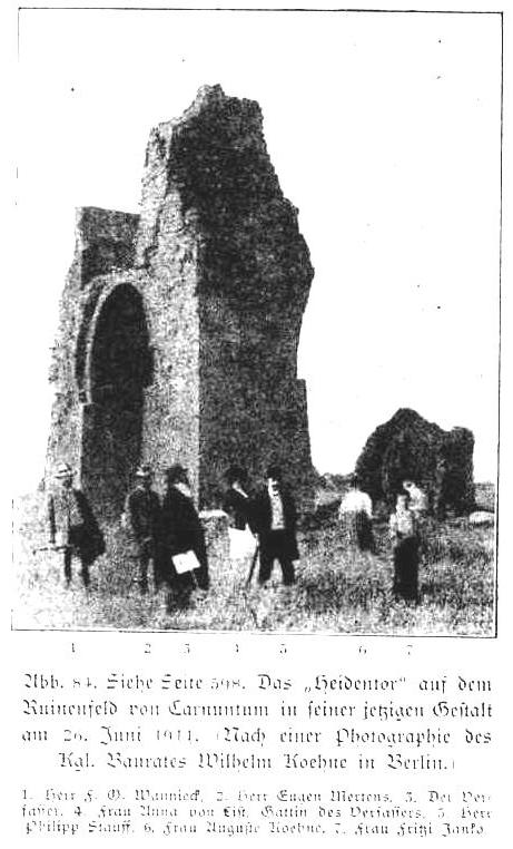 An 'Armanist Ritual; HAO (High Armanen-Orden) pilgrimage to the Heidentor (pagan gate), Carnuntum, June 1911